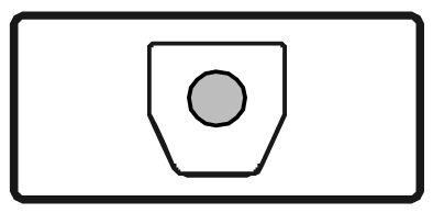 E 11b "With time toll". Additional road sign of the Czech Republic